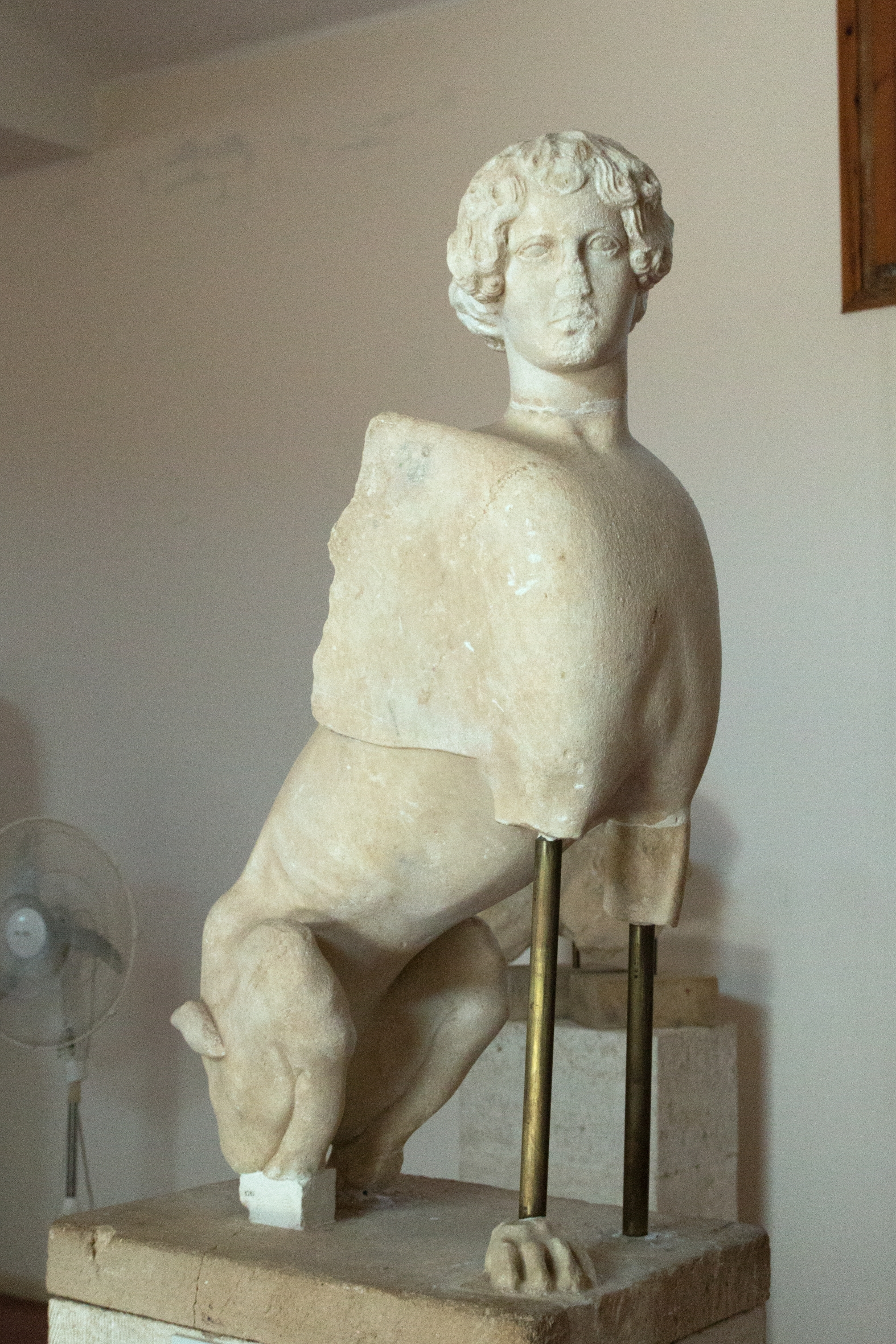 Early classical sphinx. Votive offering from the Temple of Apollo, 460 BC. Archaeological Museum of Aegina, 1183.